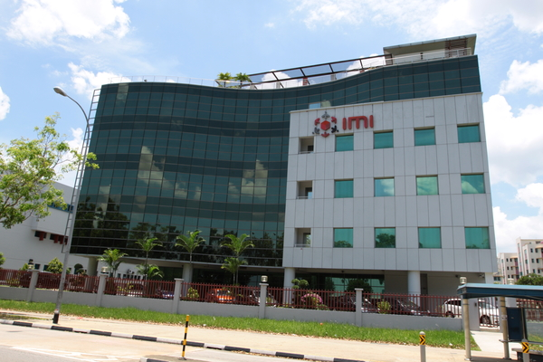 The building of IMI Singapore (Speedy Tech Industrial Building) on Kian Tech Lane, Singapore 627854